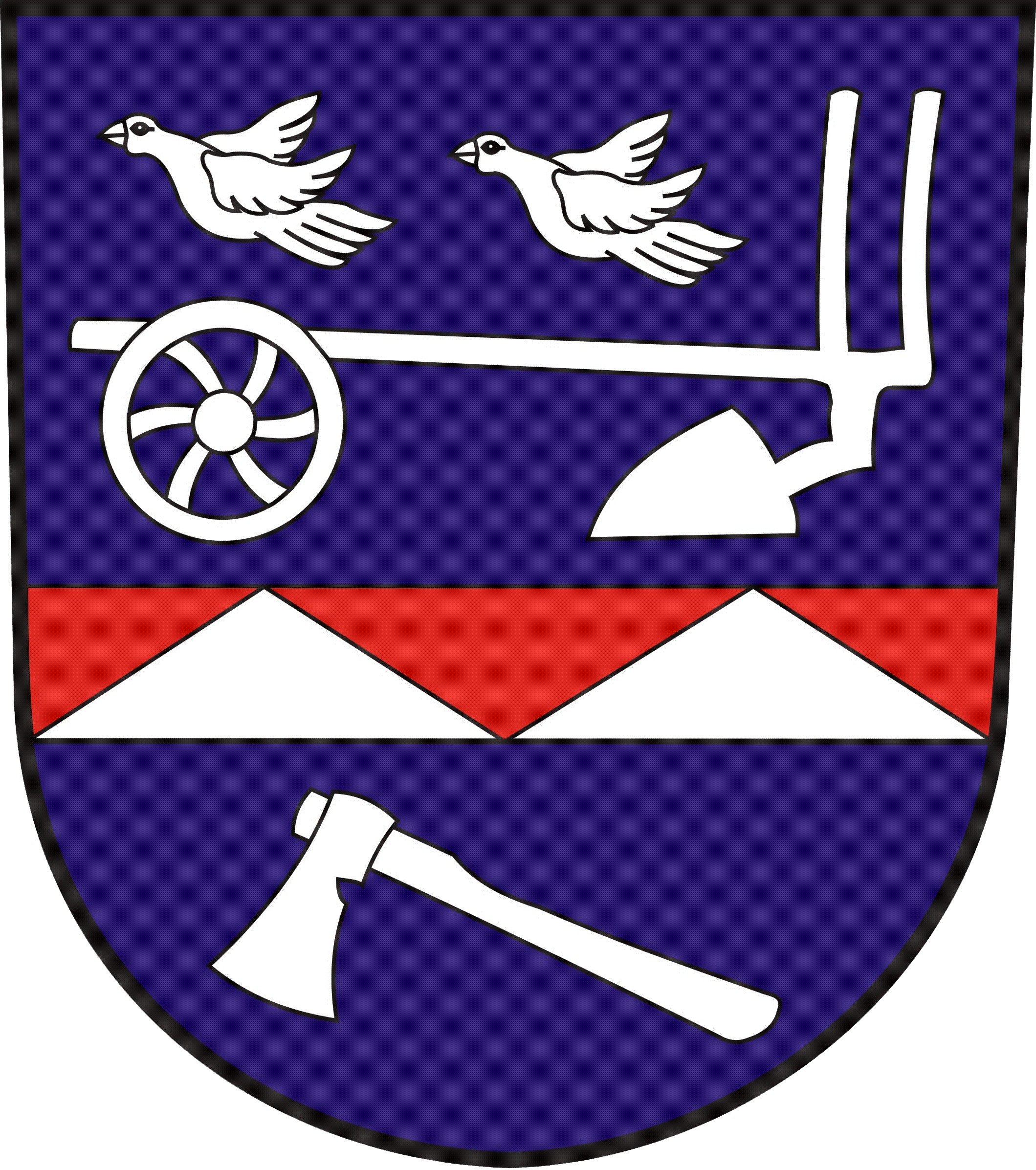 Coat of arms of village Lhotka u Litultovic in Moravian-Silesian Region, Czech Republic. Česky: Znak Lhotky u Litultovic, obce v Moravskoslezském kraji. (Blason: V modrém štítě děleném sníženým červeným zúženým břevnem se dvěma stříbrnými hroty nahoře pluh provázený dvěma letícími ptáky, dole kosmo sekera, vše stříbrné.)